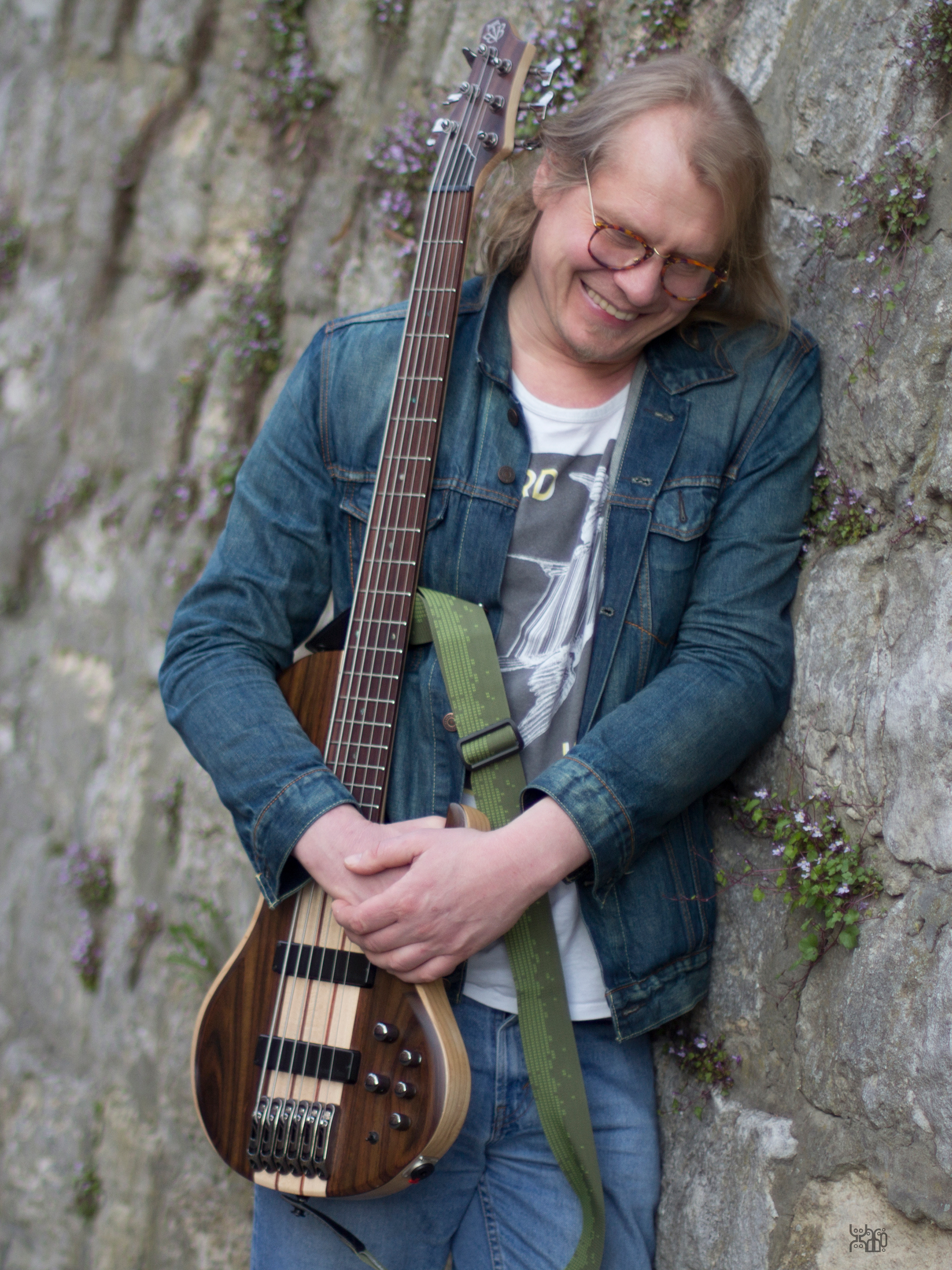 Andrew Arnautov with his 6 string 'Ibanez Terra Firma' Bass